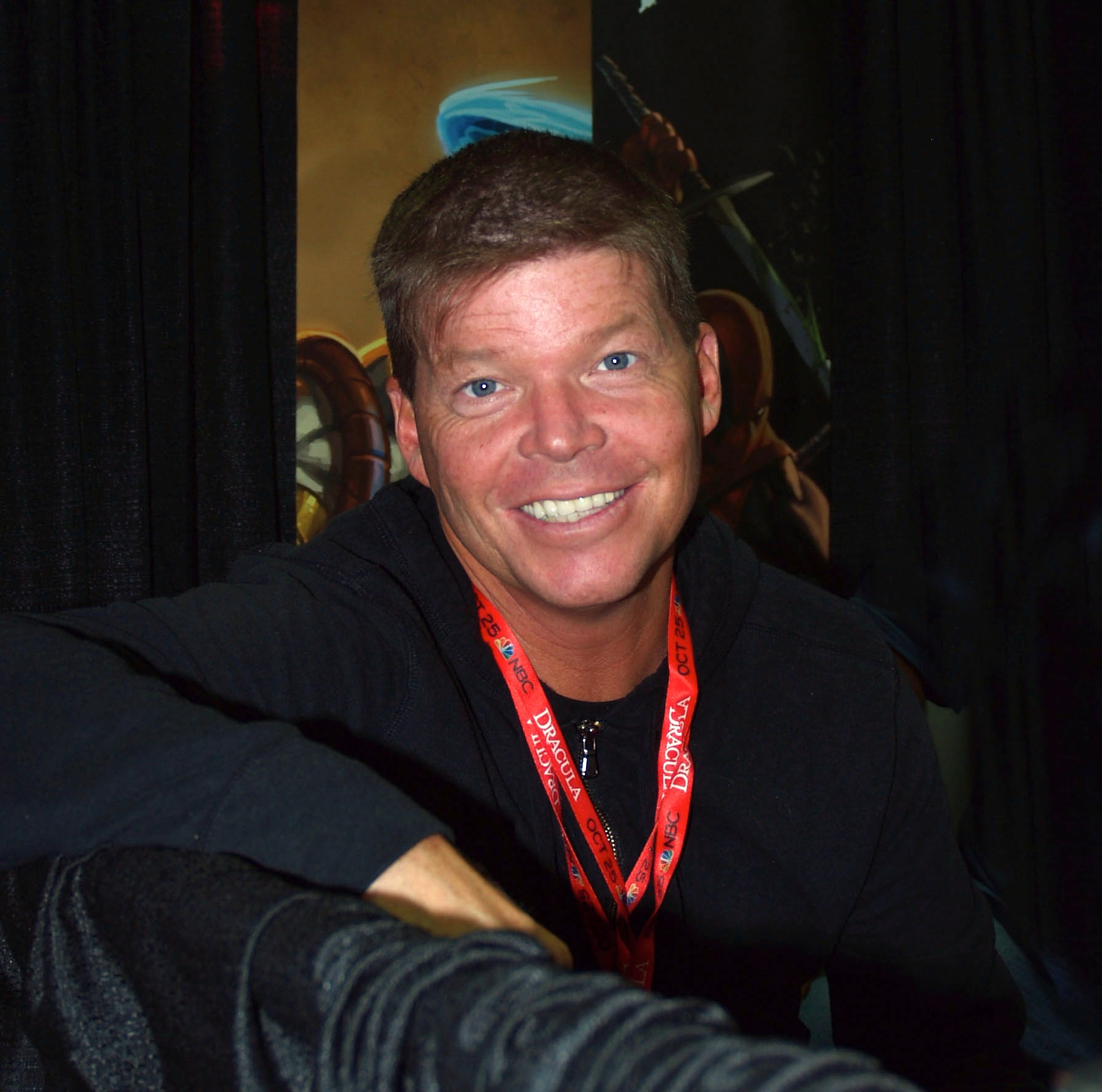 Comics creator Rob Liefeld in Artists Alley on Friday October 11, 2013 at the Jacob K. Javits Convention Center in Manhattan, Day 2 of the 2013 New York Comic Con. This photo was created by Luigi Novi. It is not in the public domain, and use of this file outside of the licensing terms is a copyright violation.